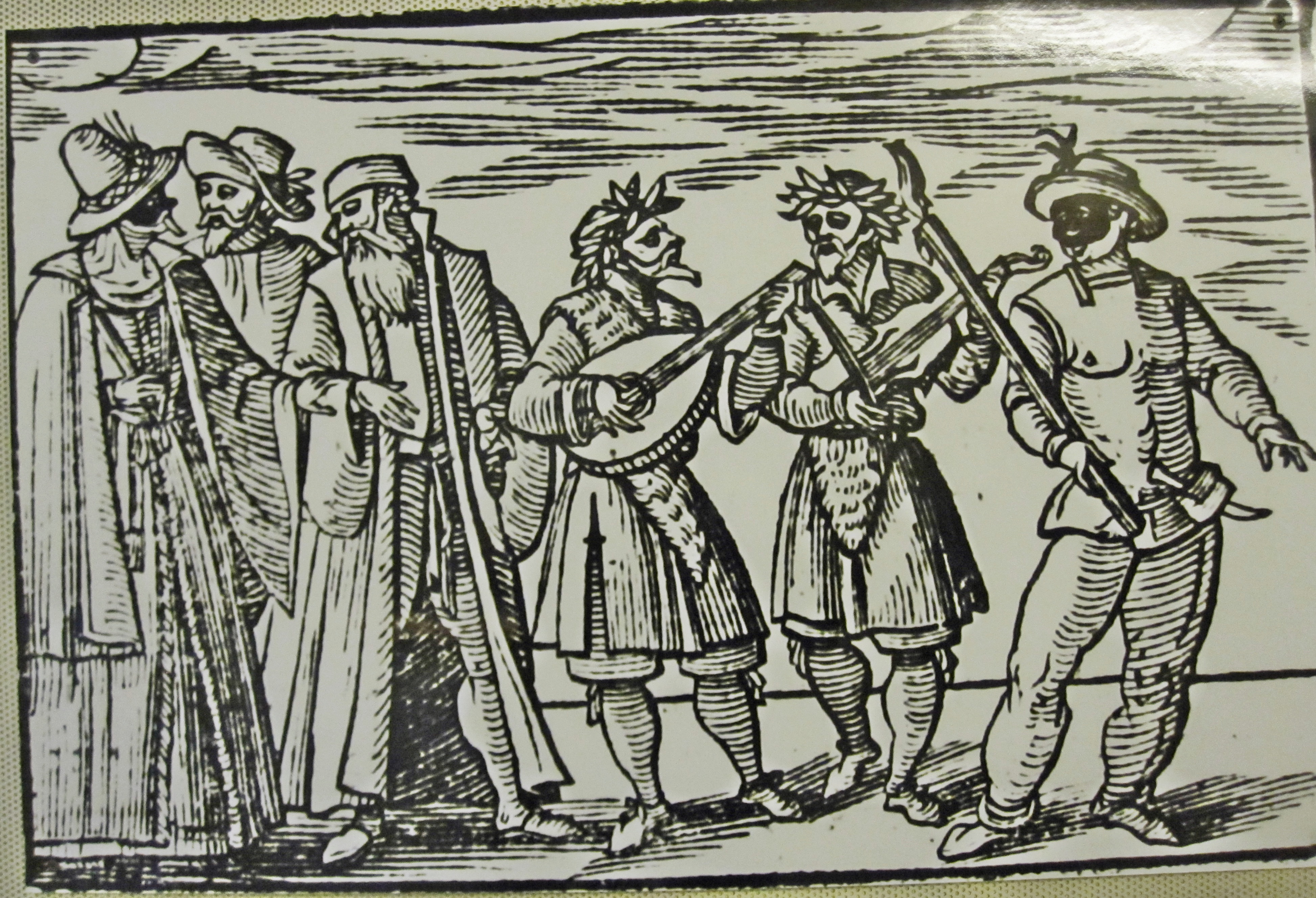 This is a photo of an exhibit at the Diaspora Museum, Tel Aviv - Beit Hatefutsot. The Note says: Purim, Woodcut from Sefer Minhagim (Book of Customs) Venice, Italy 1741 Jewish National and University Library, Jerusalem